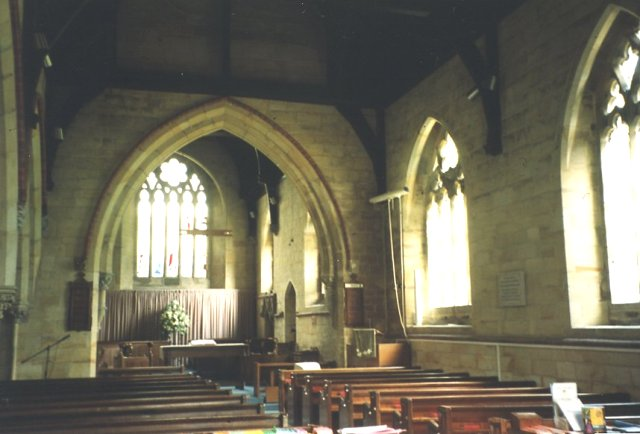 Inside St John the Divine parish church, Felbridge, Surrey, looking east to the chancel